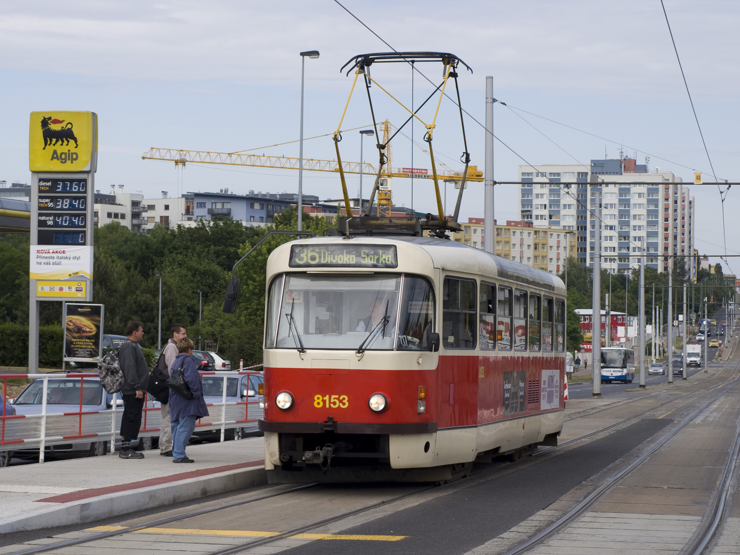 Tatra T3R.PV, Nádraží Veleslavín, Prague